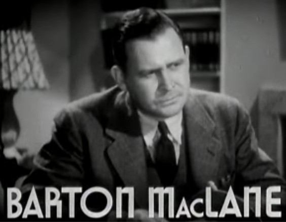 Screenshot of Barton MacLane from the trailer for the film Smart Blonde .